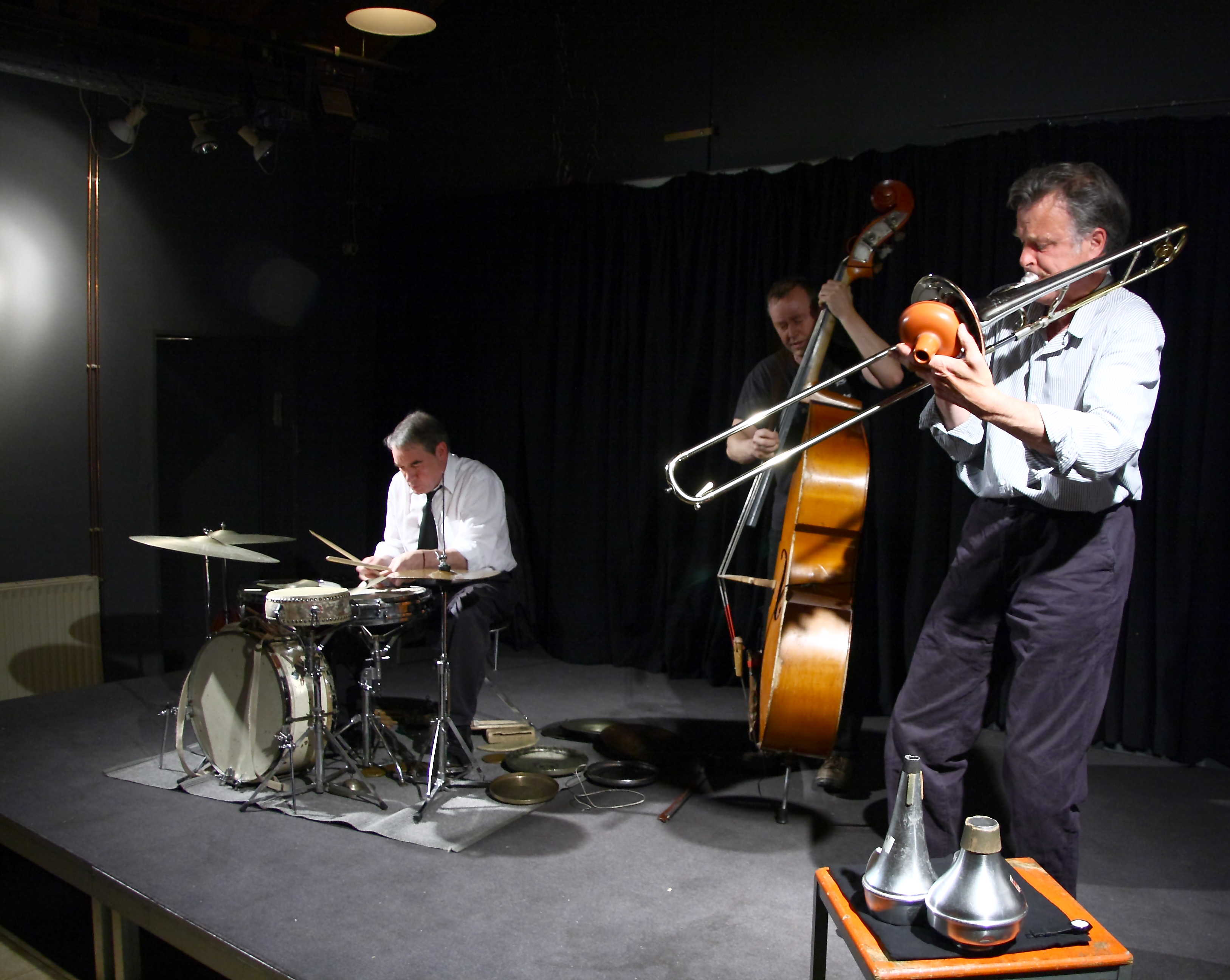 PaPaJo: Paul Lovens (dr), John Edwards (db) and Paul Hubweber (tromb) at Club W71, Weikersheim